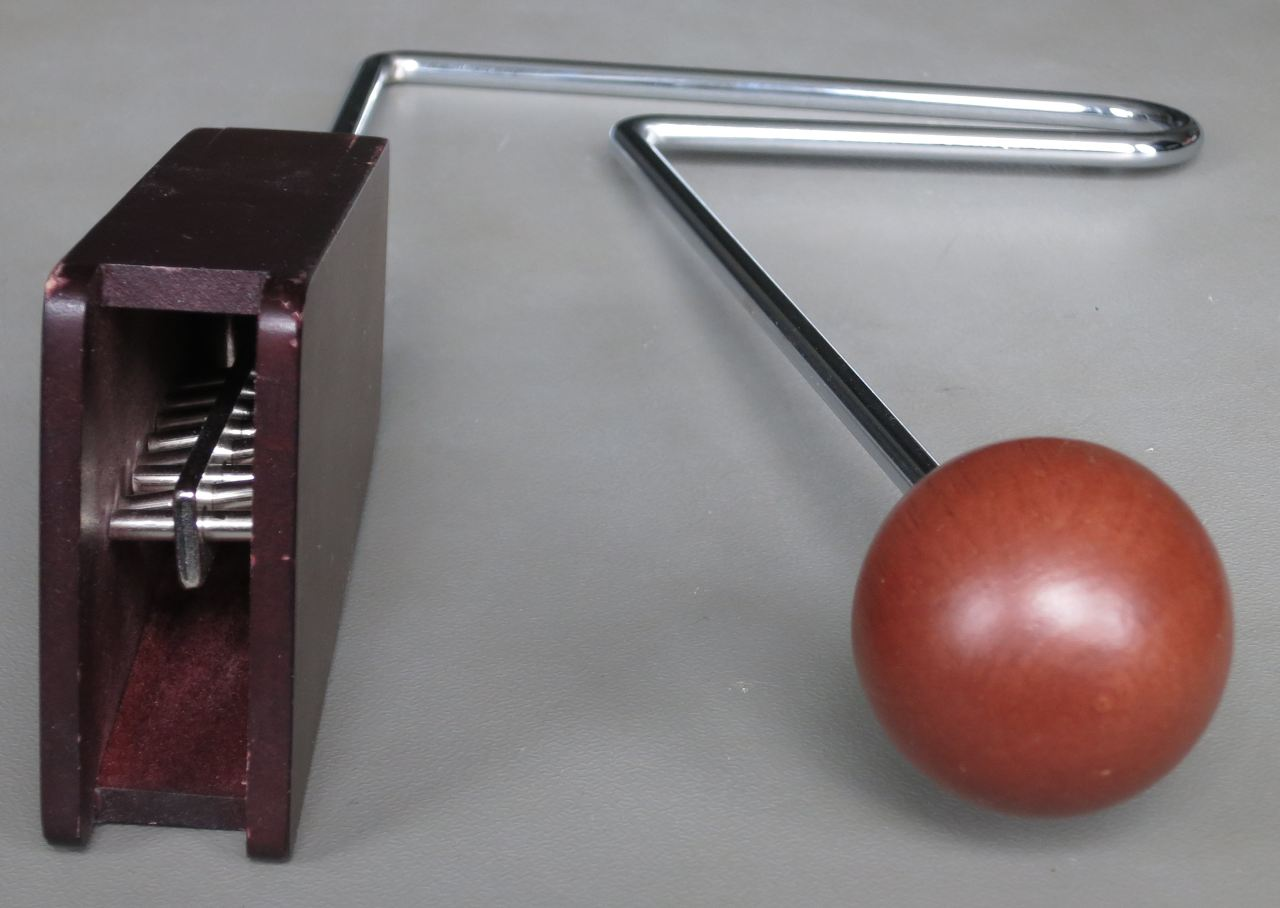 Vibraslap: view from the front. One hand holds the handle (on the back of the picture), the other one slaps the wood ball.